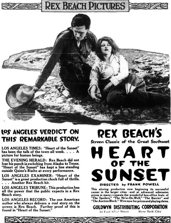 Advertisement for the American western film Heart of the Sunset (1918) with Herbert Heyes and Anna Q. Nilsson, on page 42 of the April 26, 1918 Variety.